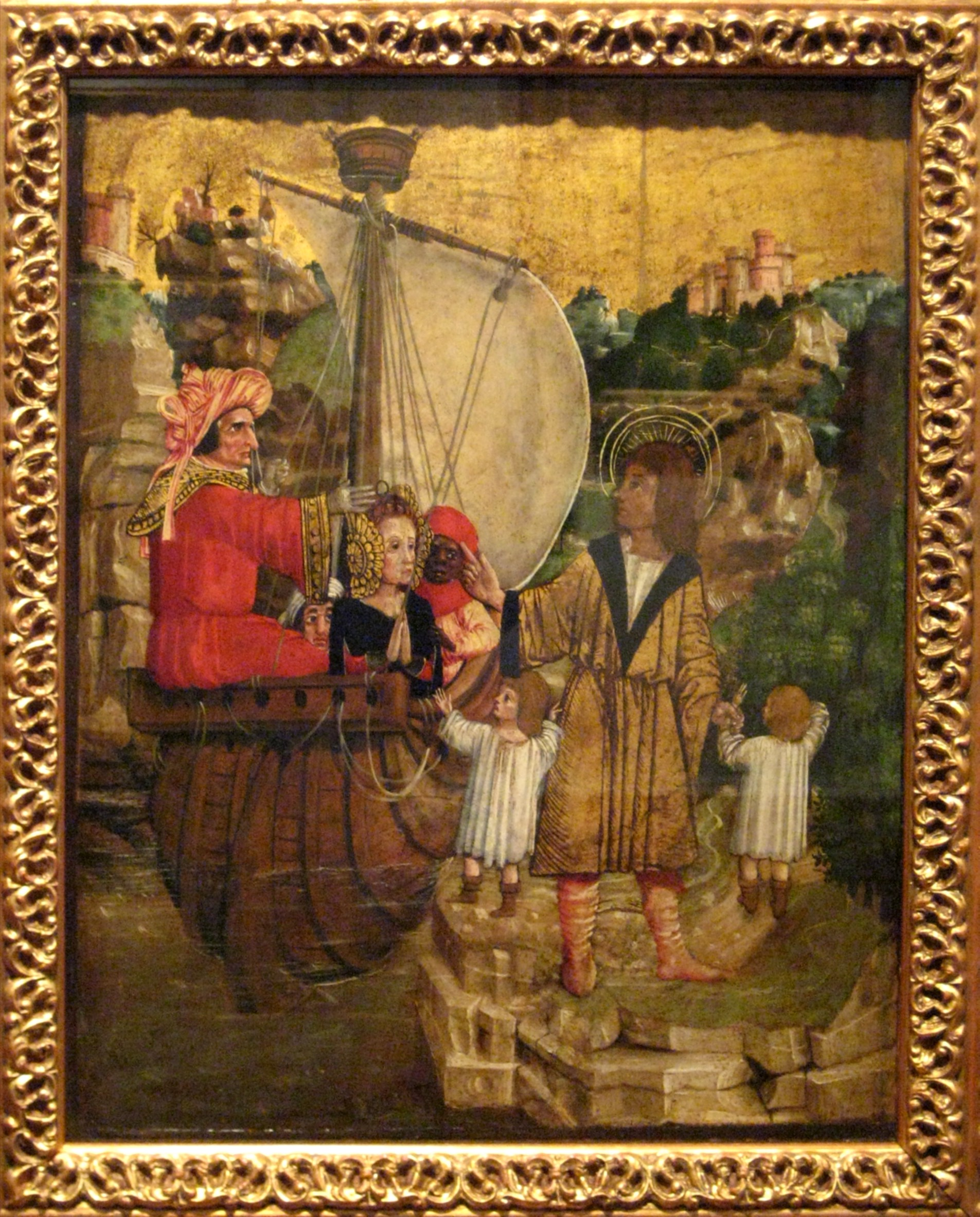 Legend of Saint Eustace // Art Museum of Nizhny Novgorod. Легенда о святом Евстафии